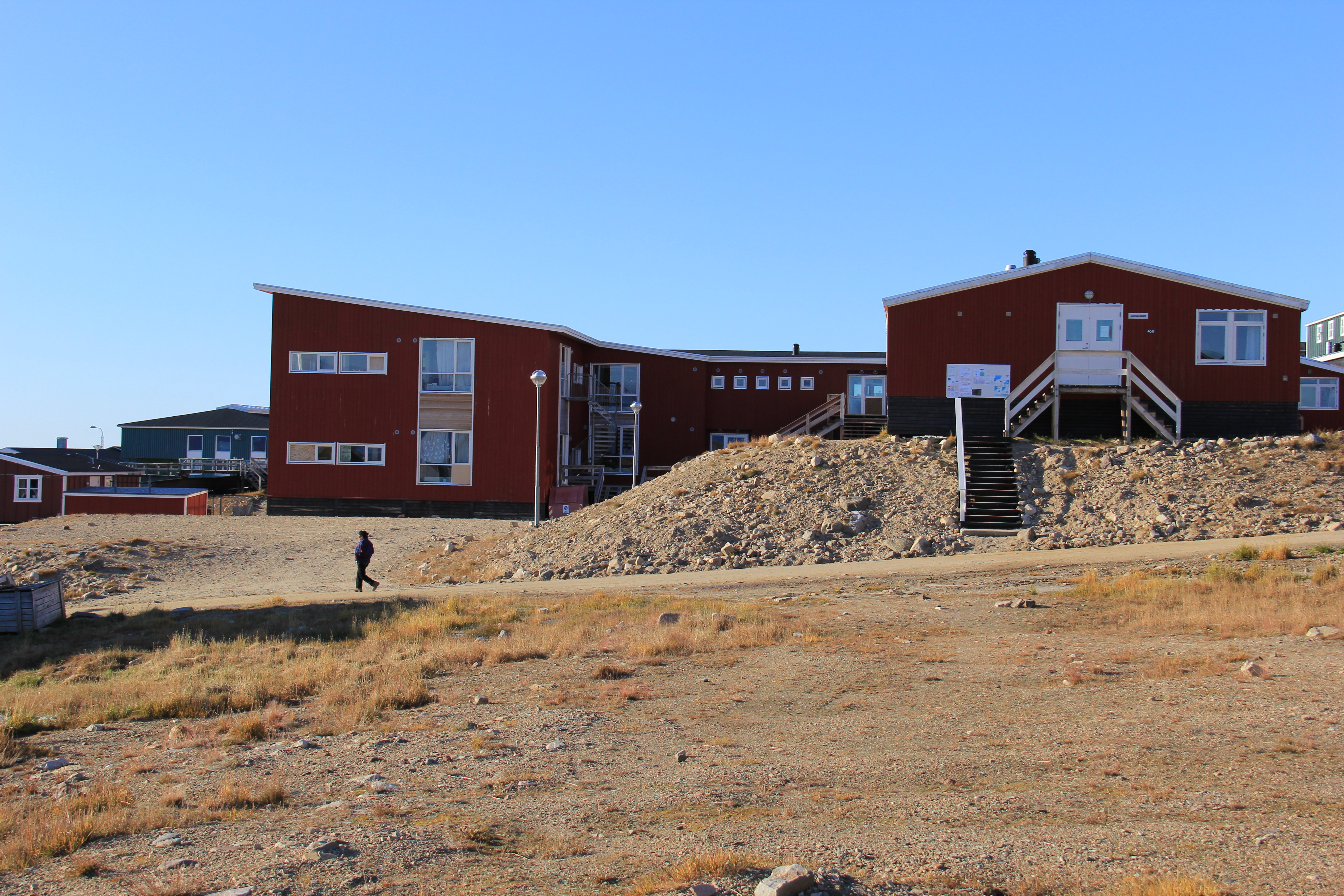 Avanersuup Atuarfia, the school in Qaanaaq